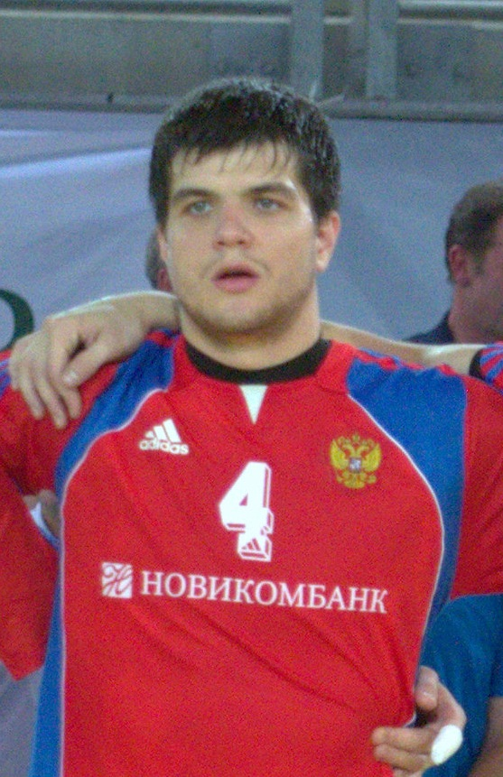 Sergei Kudinov 2013